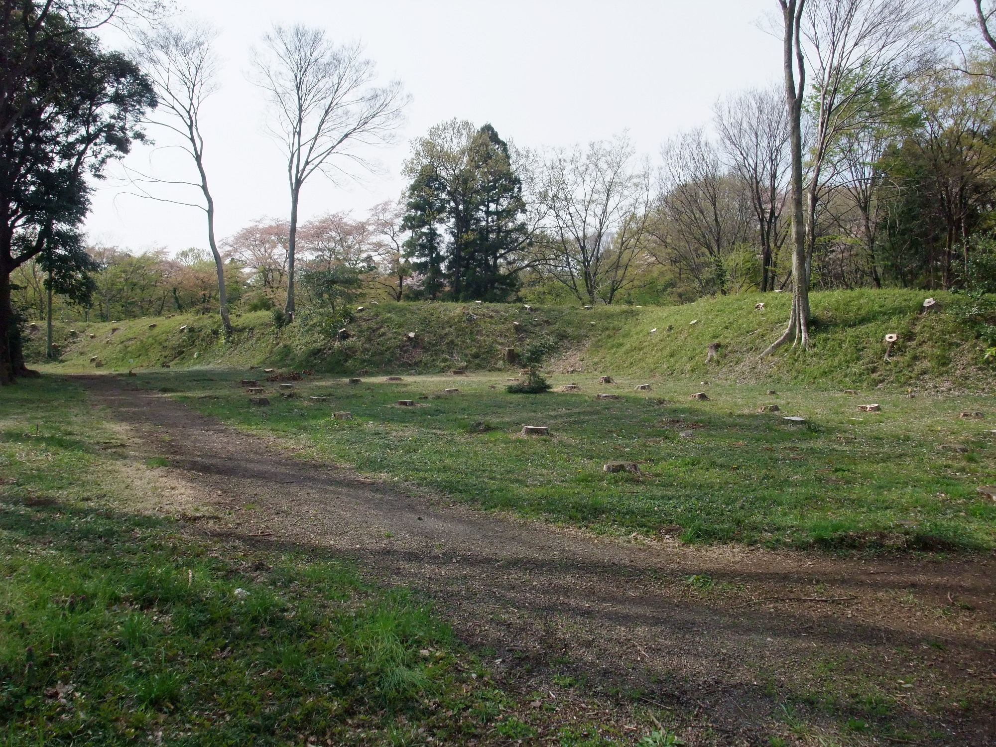 Honguruwa(Main bailey) of Sugaya-yakata Castle in Ranzan, Saitama